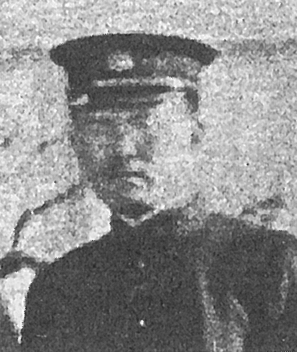 Dr. Iwao Tsuchiya